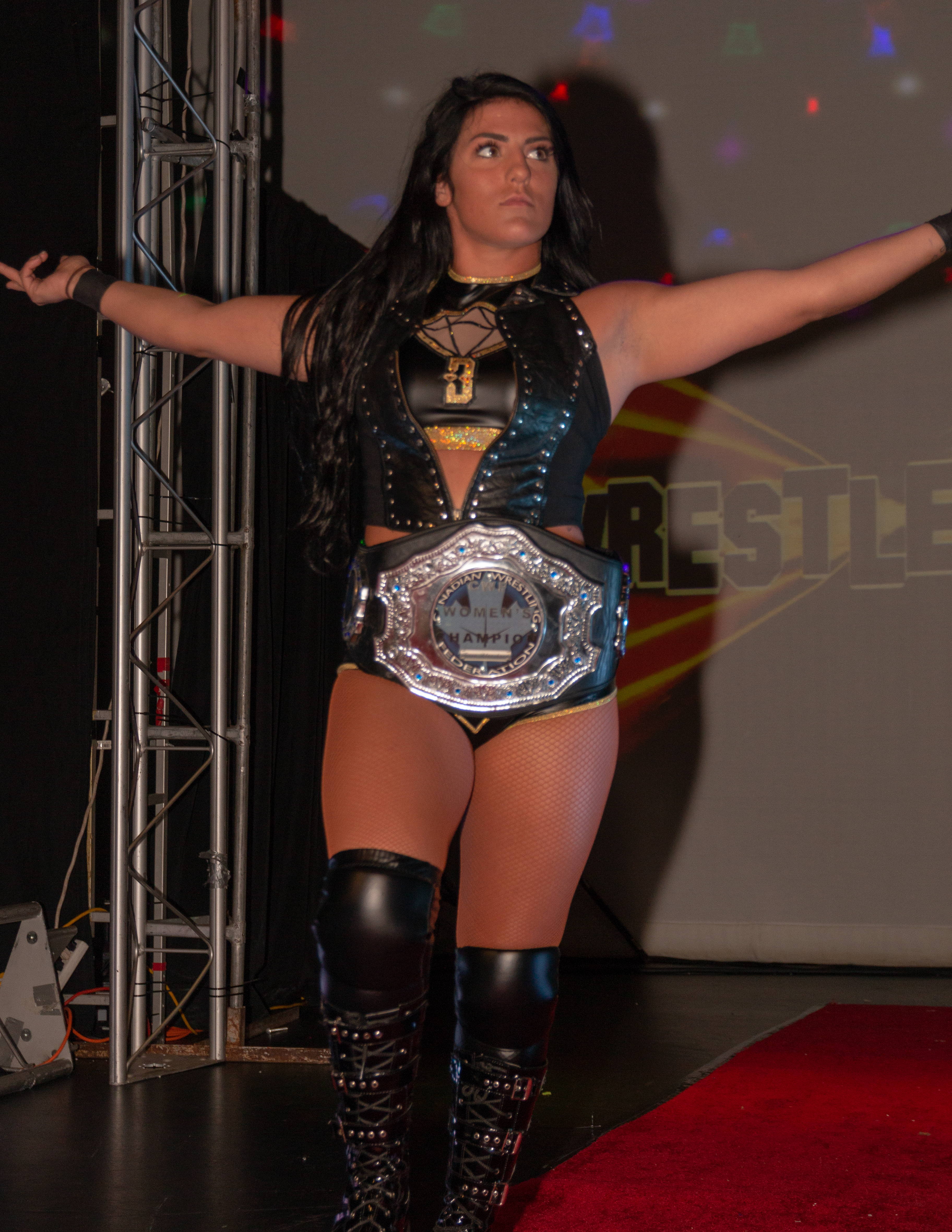 Tessa Blanchard making her ring entrance wearing the Canadian Wrestling Federation's Women's championship title, at their Wrestlelusion show at the Scotiabank Convention centre in Niagara Falls, ON